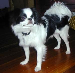 Japanese Chin (Neru)